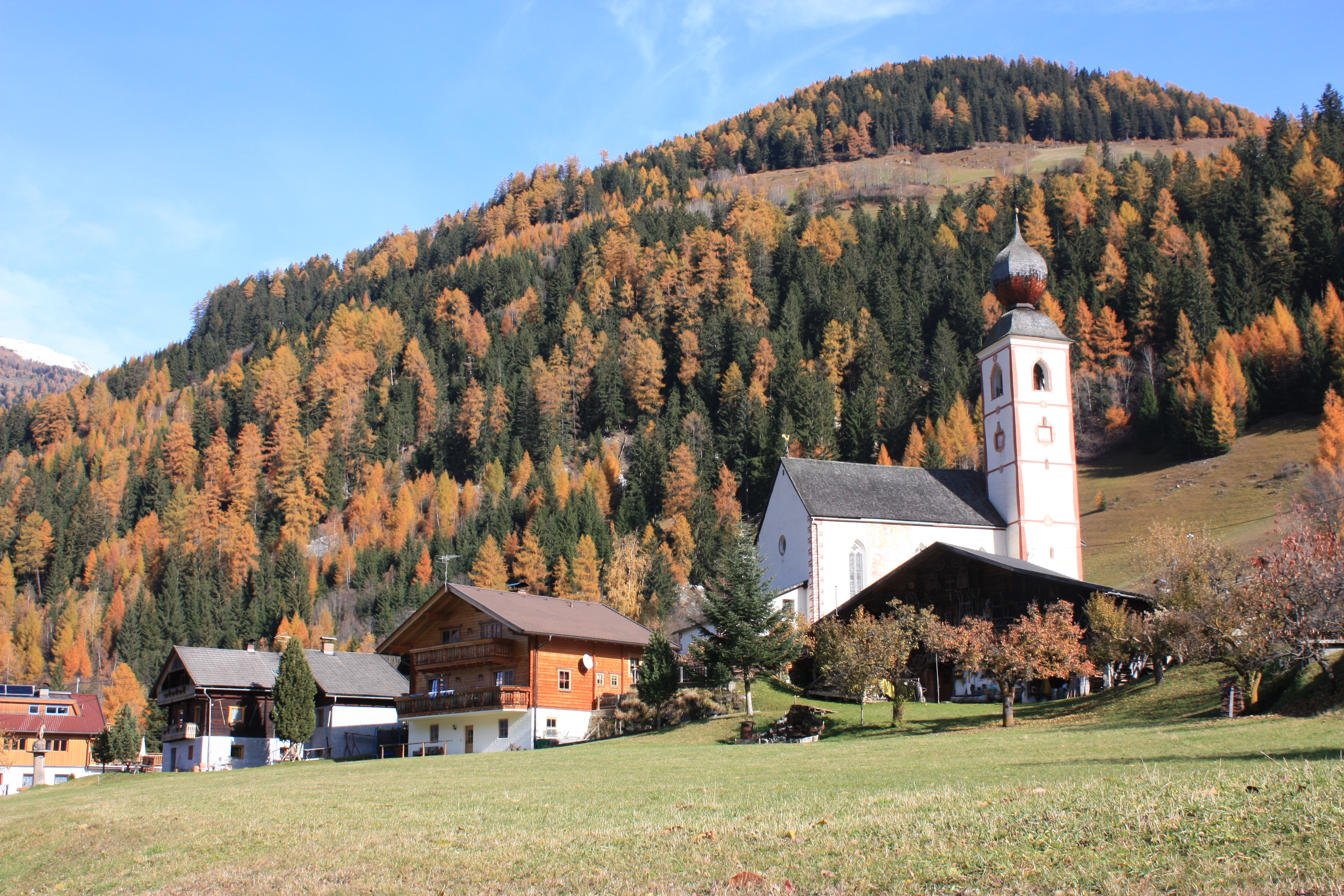 View to Mitteldorf Locality: Mitteldorf Community:Großkirchheim